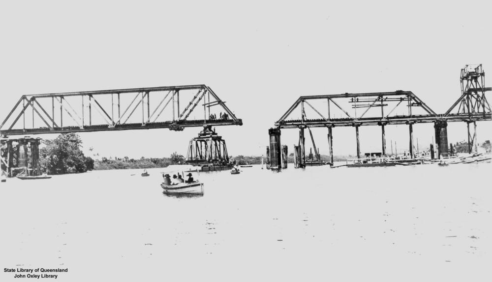 Daradgee Railway Bridge, 1924 Daradgee Bridge, spanning the North Johnstone River, four miles north of Innisfail, North Queensland. The last span of the north coast line bridge is being put into place. The main 200 ft. span of this bridge was floated into position from the Innisfail side on 31st October 1924 and was finally lowered on its bearings on 4th November 1924. The work was completed on 25th November 1924. The official opening of the bridge for traffic by E. G. Theodore took place on 8th December 1924. The resident engineer responsible for the construction of the bridge was Mr J. A. Ellis. (Description supplied with photograph.).